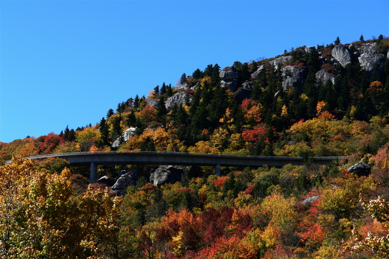 Picture of the Linn Cove Viaduct. Taken October 2006, by Tyler Raulerson. Phatmax95 06:11, 16 October 2006 (UTC)